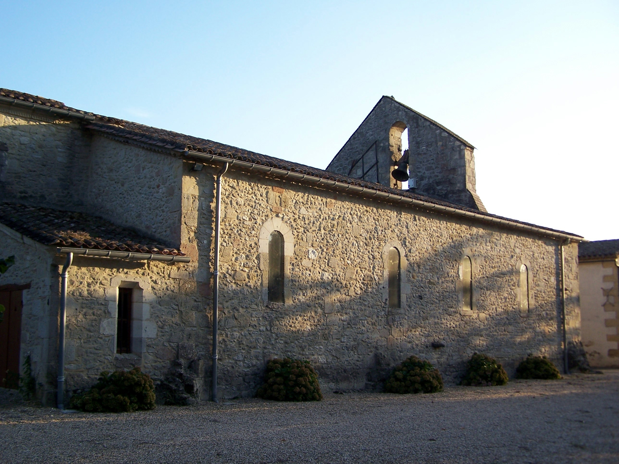 Church Saint-Jean of Landerrouat (Gironde, France)